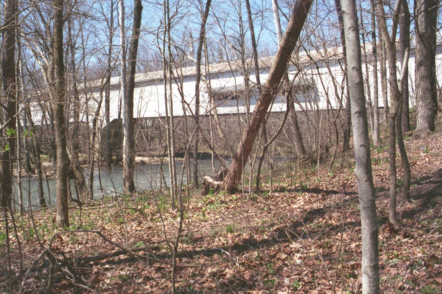 Both spans of the Moscow Covered Bridge are visible from downriver.